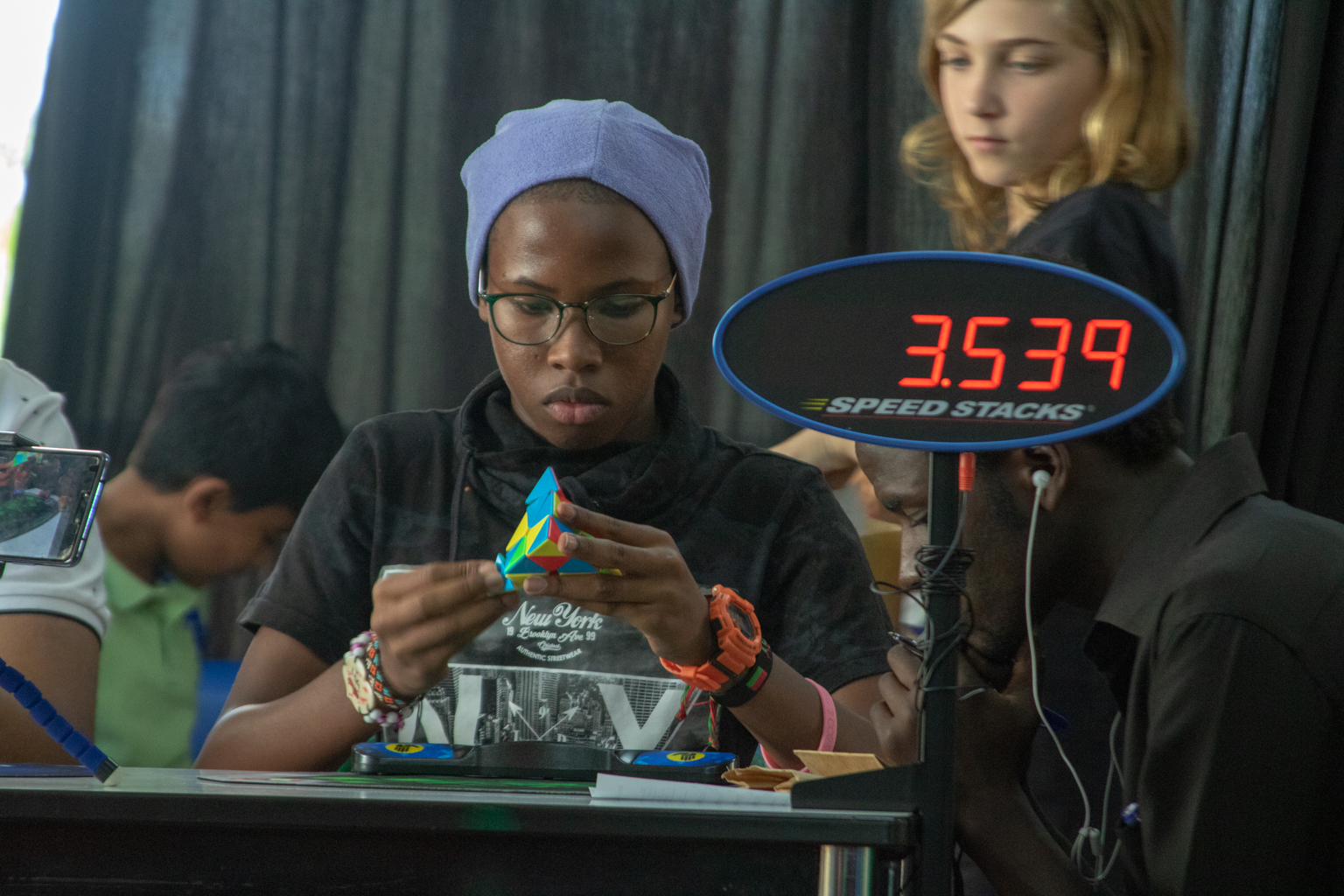 Jay Kuria solves a triangular rubik's cube at Kenya's 1st World Cube Association competition This is an image with the theme "Play" from: Kenya